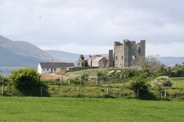 Green Castle, Greencastle, Carlingford Lough This is the view looking west from the Greencastle Road.